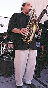 Saxophonist Greg Abate